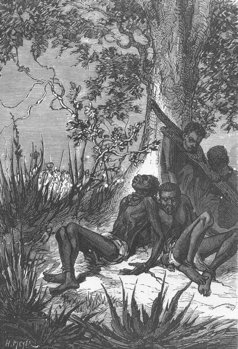 An ilustration from "Dick Sand, A Captain at Fifteen" by Jules Verne painted by Henri Meyer.